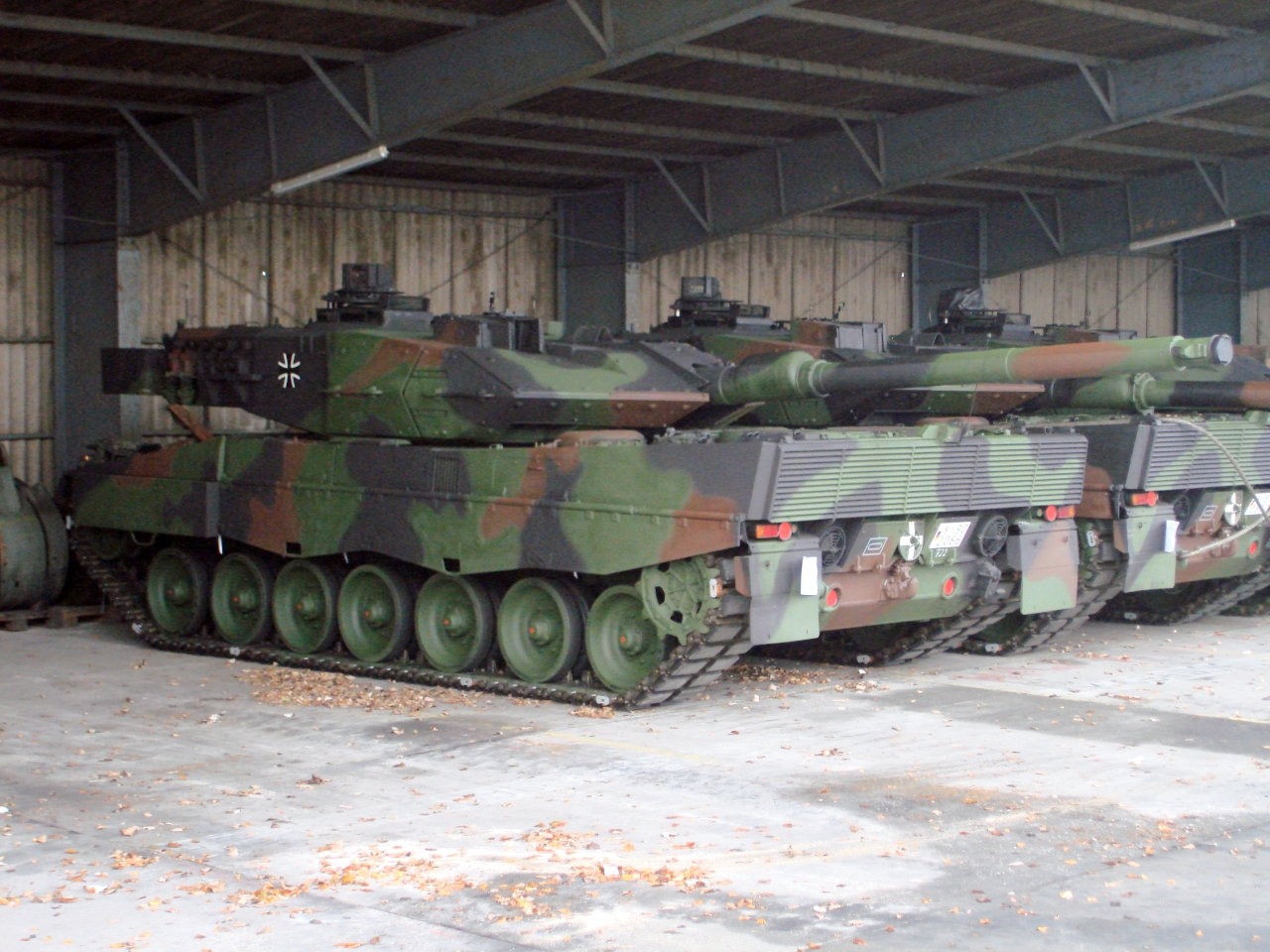 Rearview Leopard 2A6 with new smoke dispenser and heavy Side skirts from Leopard 2A4